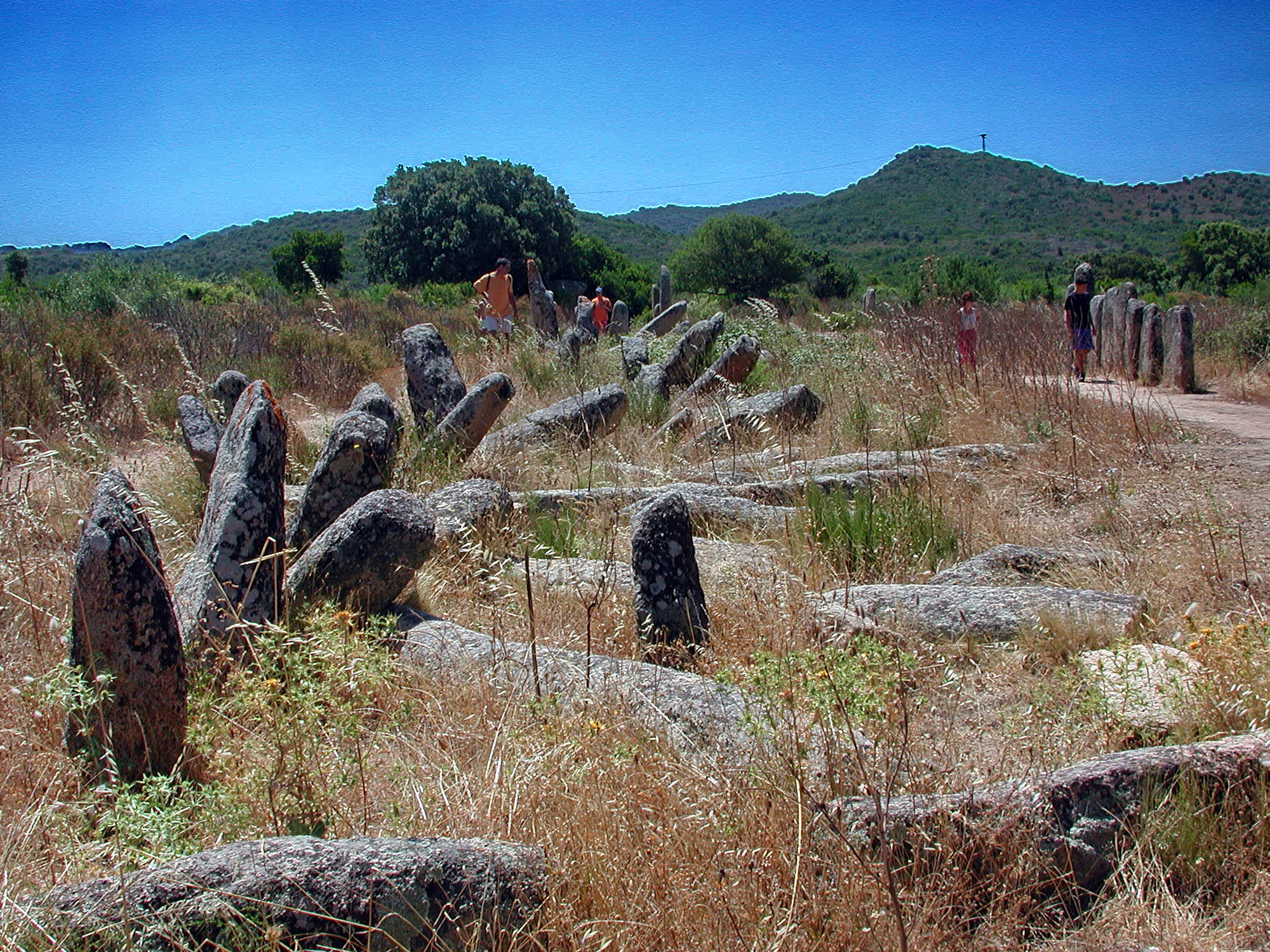 Aligned megaliths in Pagliajo, Corsica